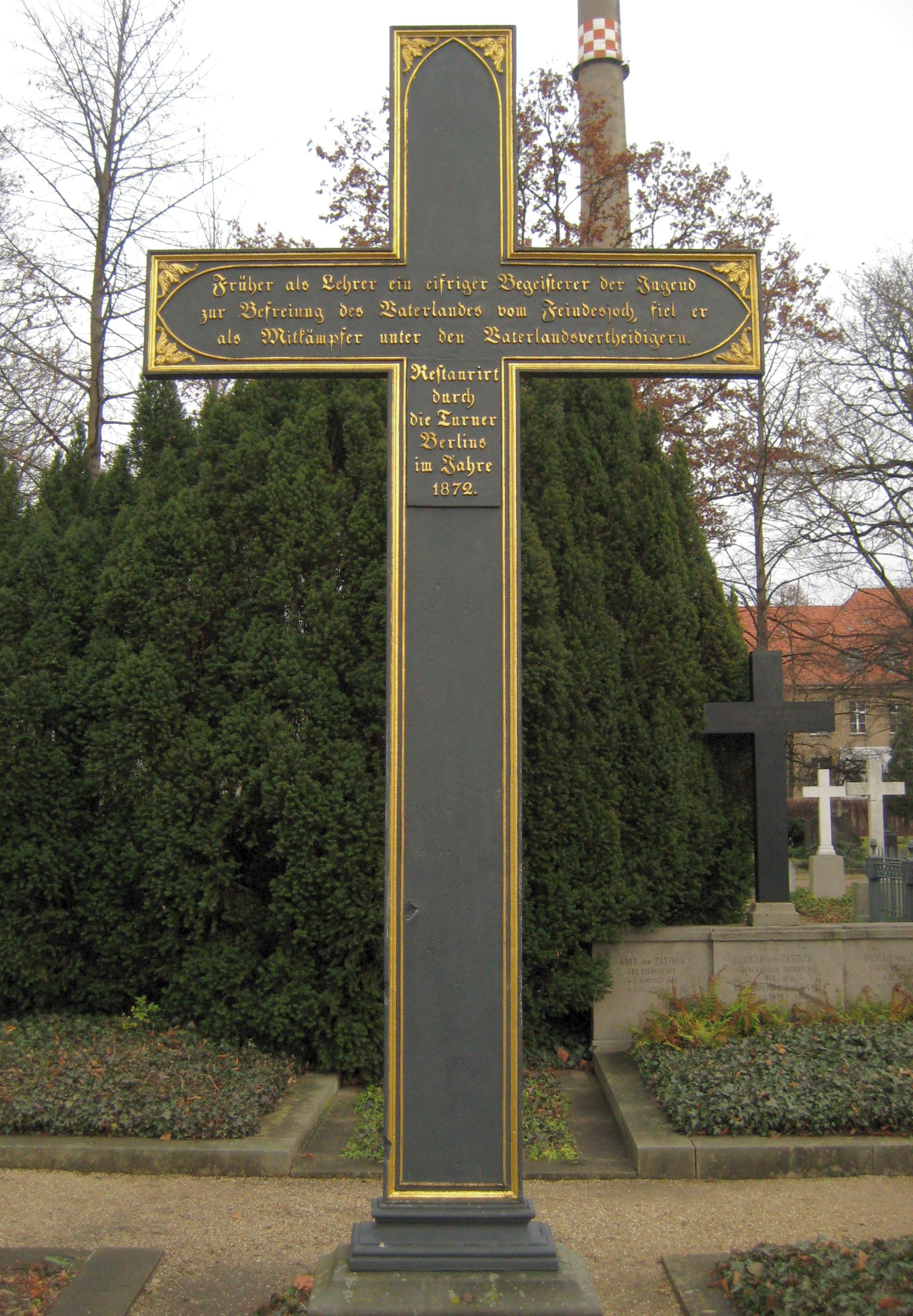 grave cross for Karl Friedrich Friesen on Invalidenfriedhof cemetery in Berlin (back side)